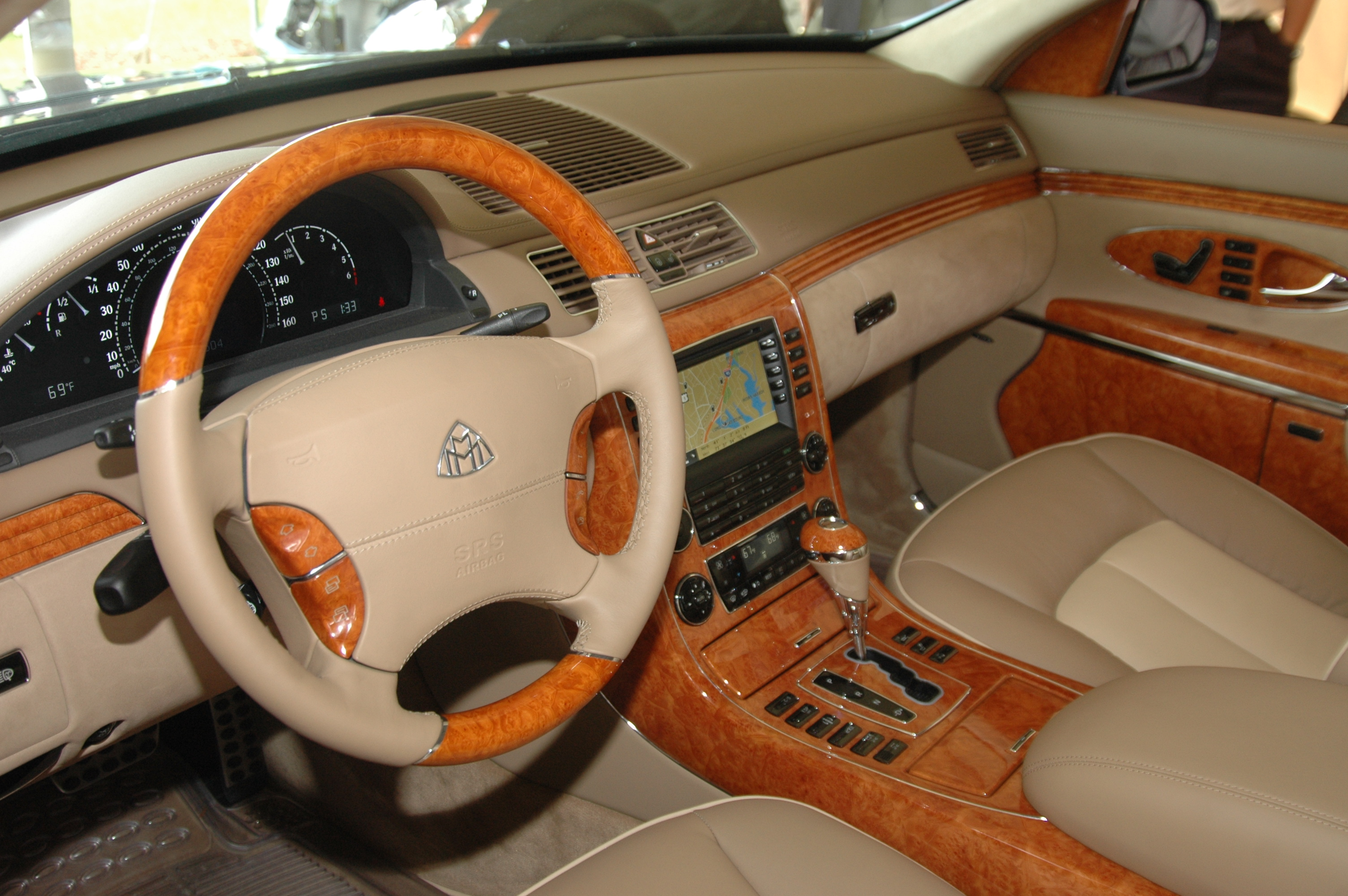 Interior shot of a 2006 Maybach 62 Photographed by Jagvar at the Greenwich Concours d'Elegance in Greenwich, CT on June 4, 2006.